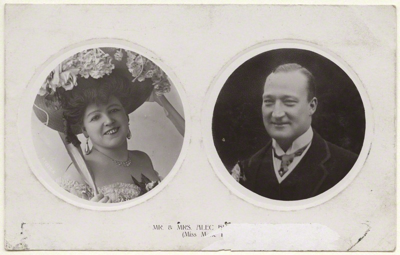 Marie Lloyd and Alec Hurley as man and wife, in 1906.